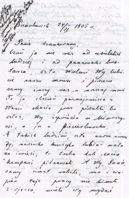 The beginning of the first sheet to Vaslav Ivanovsky to Alexander Yelsky on February 24, 1905 in the Belarusian publishing.